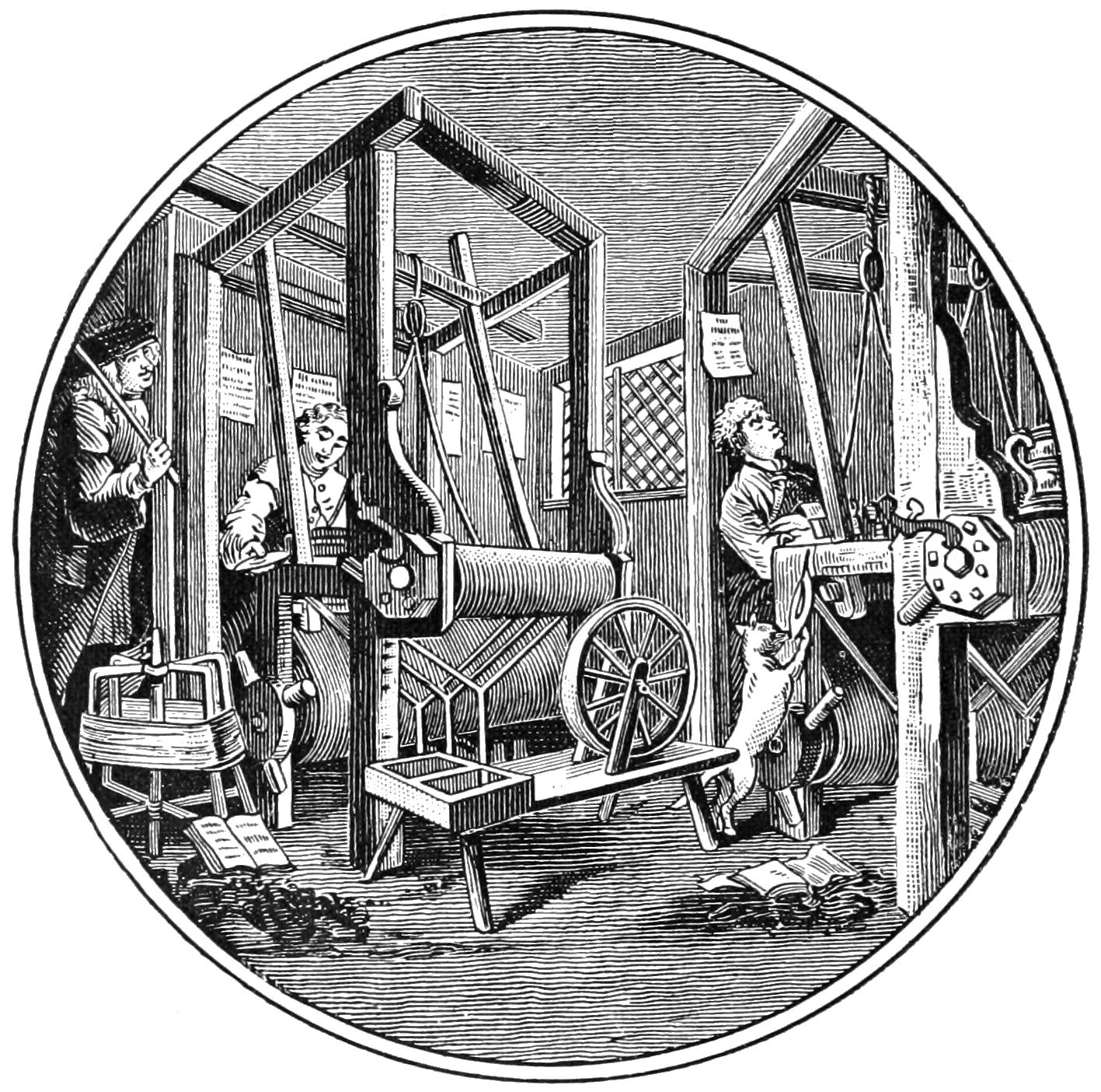 Hand loom of 1750